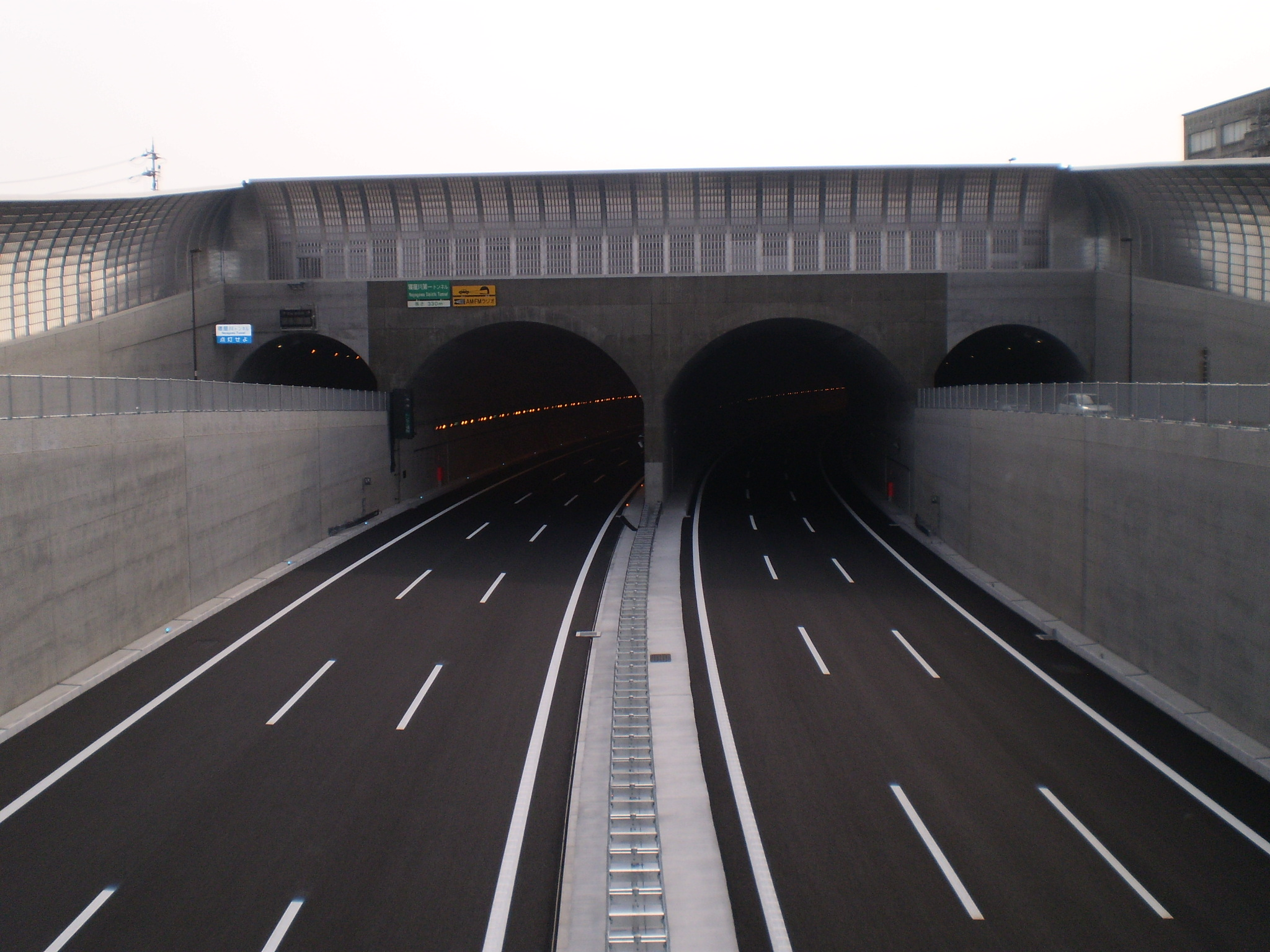 Daini keihan road. I took this image at Uzumasatakatsukacho Neyagawa City Osaka Pref., Japan.